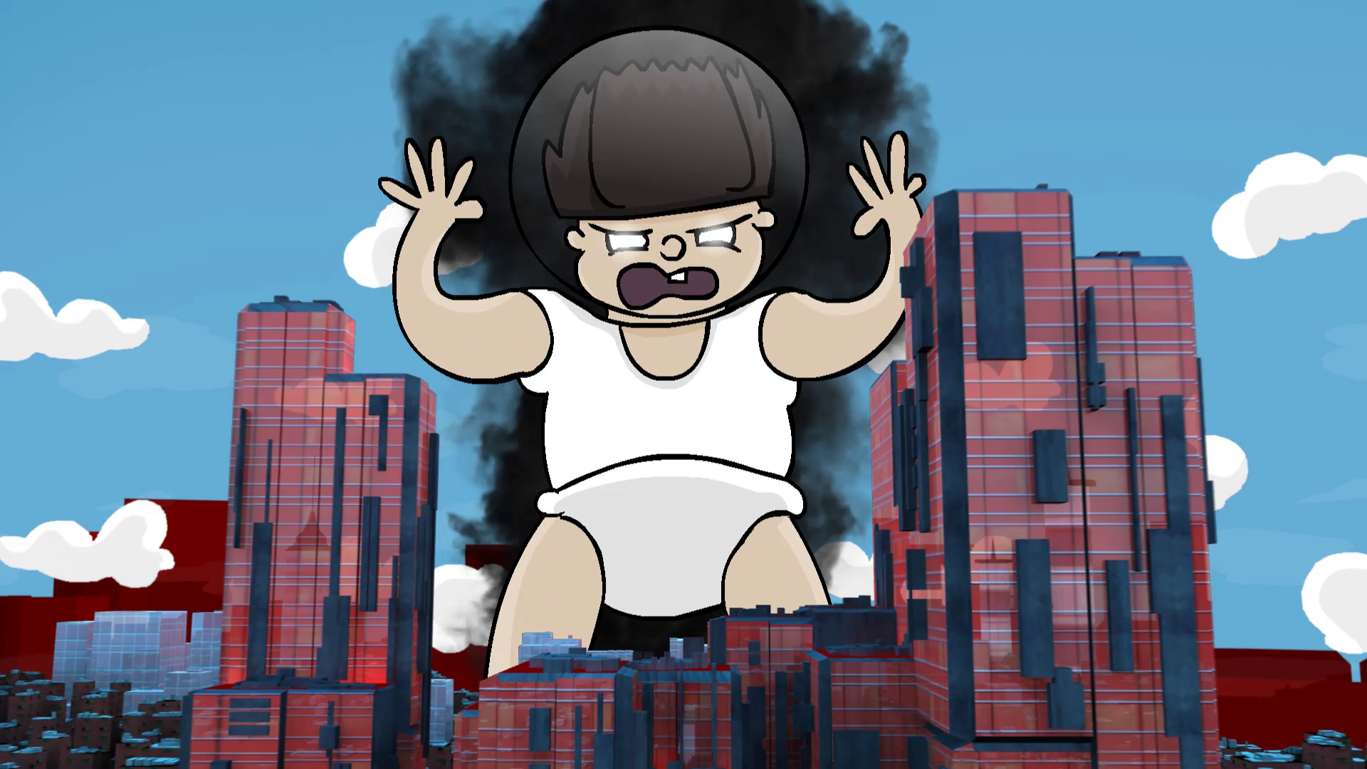 A screenshot from an animation I directed. Director: Connor McKee 2D Animation & Preproduction: Joshua Smyth and Alex Papanicola Modeling: Patrick Høiseth, Yasmin Down and Connor McKee VFX: Stu Whitten Editing: Connor McKee